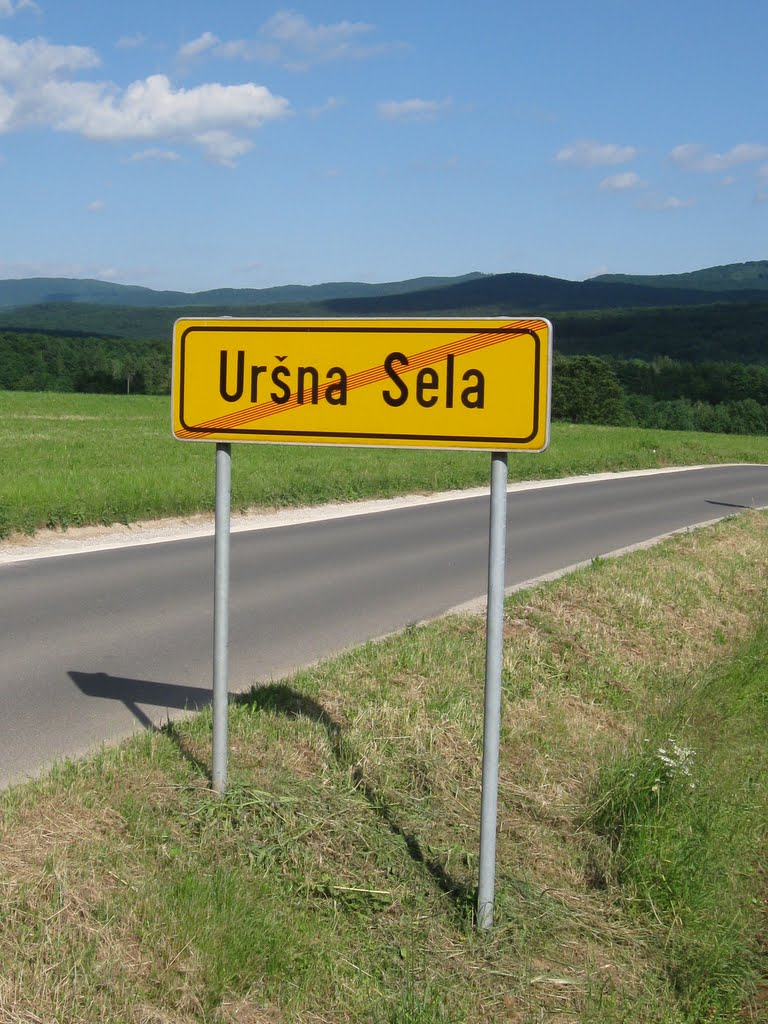 Road sign Uršna Sela